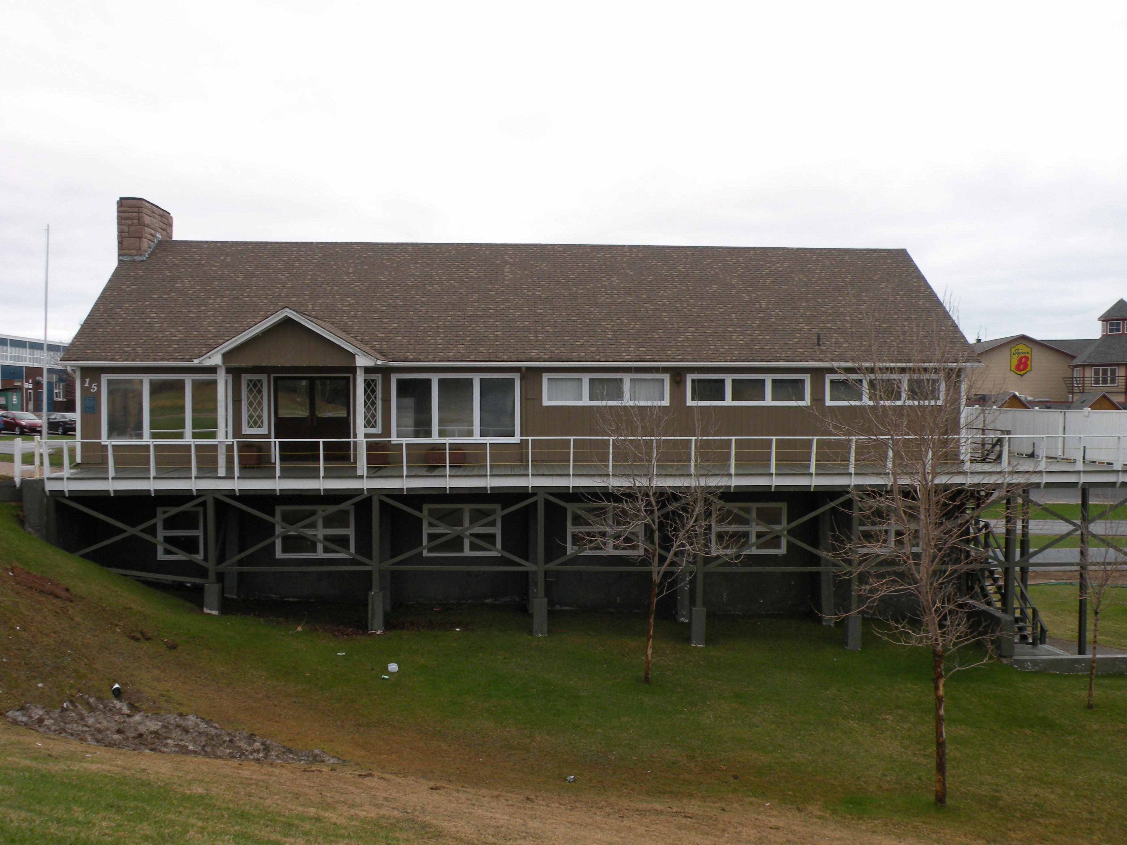 The Caraquet Museum.